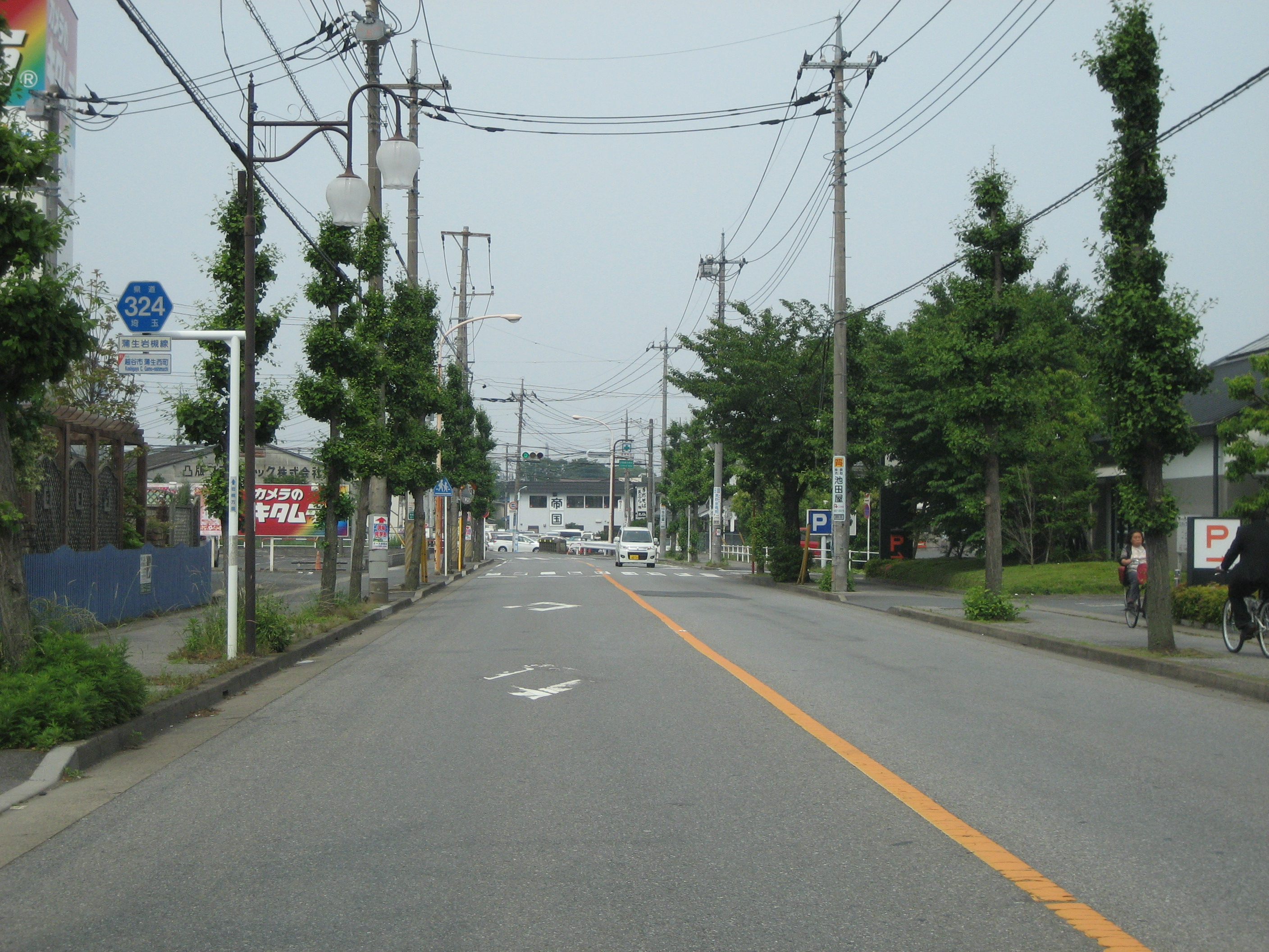 The Saitama Prefectural Road Route 324 in Koshigaya City